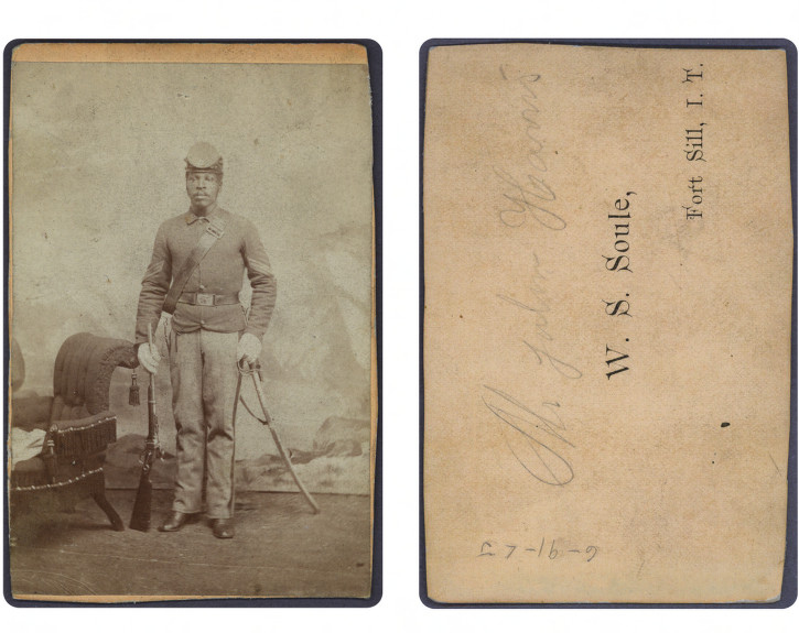 Uploaded from Flickr This image was taken from Flickr's The Commons. The uploading organization may have various reasons for determining that no known copyright restrictions exist, such as: The copyright is in the public domain because it has expired; The copyright was injected into the public domain for other reasons, such as failure to adhere to required formalities or conditions; The institution owns the copyright but is not interested in exercising control; or The institution has legal rights sufficient to authorize others to use the work without restrictions. More information can be found at Please add additional copyright tags to this image if more specific information about copyright status can be determined. See Commons:Licensing for more information.No known copyright restrictionsNo restrictions Metadate from SMU Central University Library as posted on Flickr Title: [Sergeant John Harris, 10th United States Cavalry Regiment] Creator: Soule, William Stinson Date: ca. 1868 Part Of: Lawrence T. Jones III Texas photography collection Description: Sergeant Harris, posed with a Sharps repeating rifle, was a member of the 10th U.S. Cavalry Regiment, one of the four original 'Buffalo Soldier' units in the U.S. Army. He served in Texas and the Indian Territory during the numerous conflicts with the Comanches and Kiowas on the southern plains. Physical Description: 1 photographic print on carte de visite mount; 10 x 6 cm. File: federal_army-2-11c.tif Rights: Please cite Southern Methodist University, Central University Libraries, DeGolyer Library when using this image file. A high-quality version of this file may be obtained for a fee by contacting . For more information, see: View the Lawrence T. Jones III Texas Photographs at